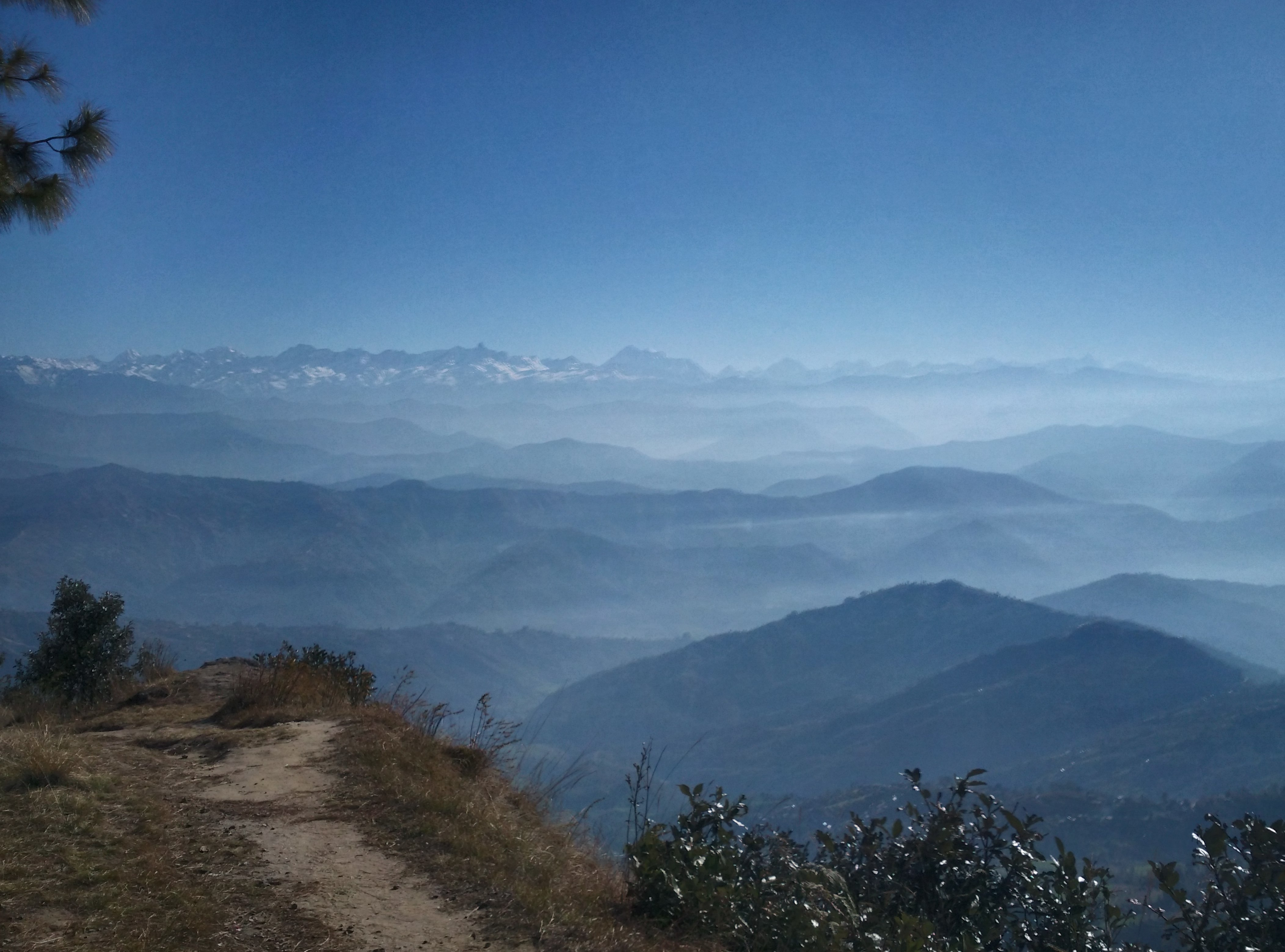 unobstructed landscapes with verdant valleys seen on the trail